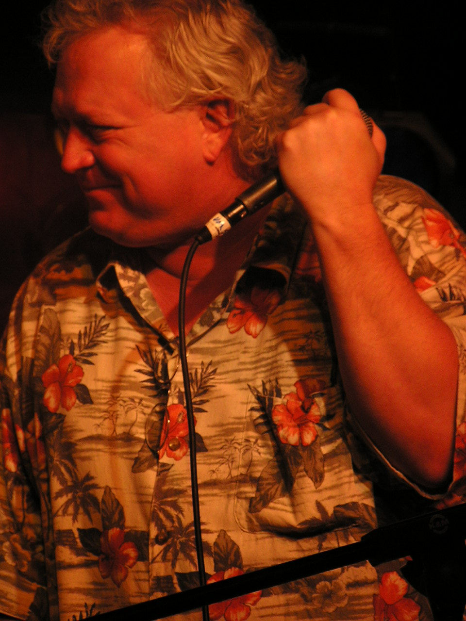 Country singer T. Graham Brown performing at a benefit event.